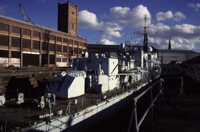 Former Hawthorn, Leslie dry dock, Hebburn